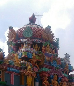 Vadakkuvasal keavadudisvarartemple வடக்குவாசல் கேசவதுதீஸ்வரர்கோயில்